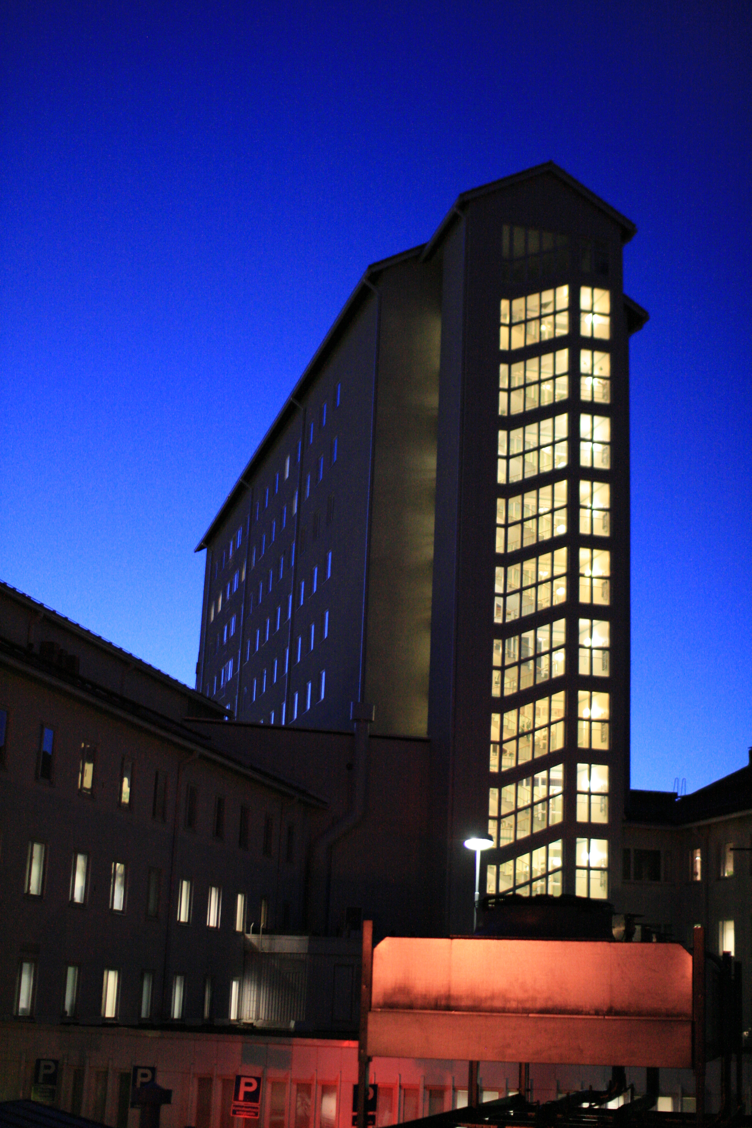 Central Hospital, North Karelia, Joensuu, Night view